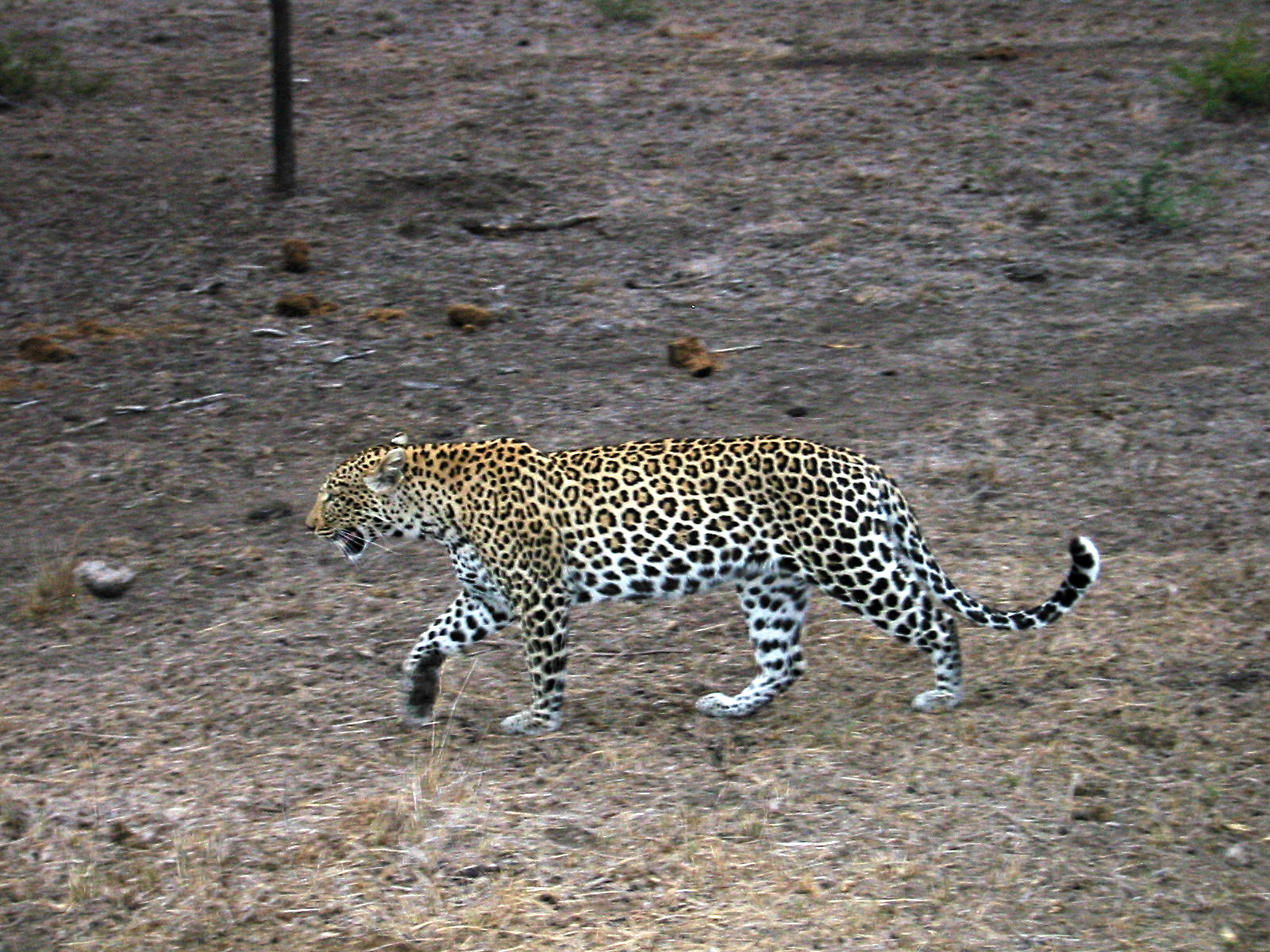 African Leopard in Sabi Sabi Game Reserve, South Africa.